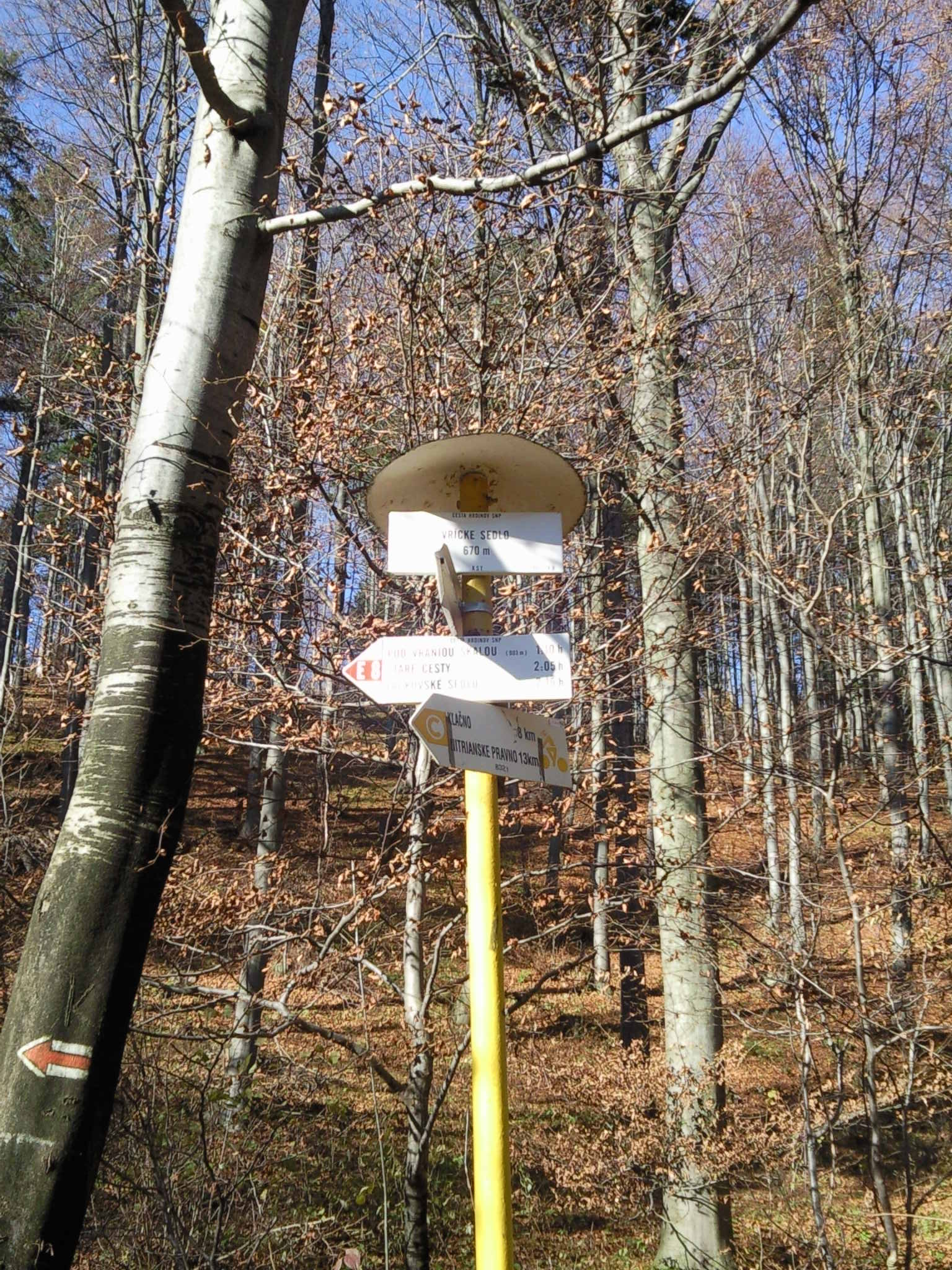 Vricke sedlo